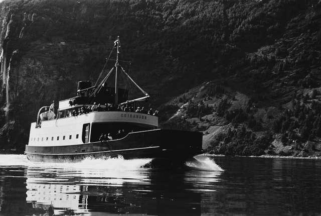 Norwegian car ferry MF Geiranger, built in 1937. Picture is taken in Geirangerfjord